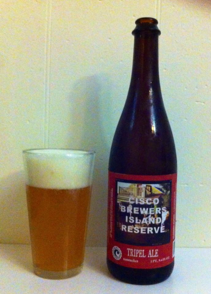 A big bottle of Cisco Brewers Island Tripel Ale, and a glassful of said ale.